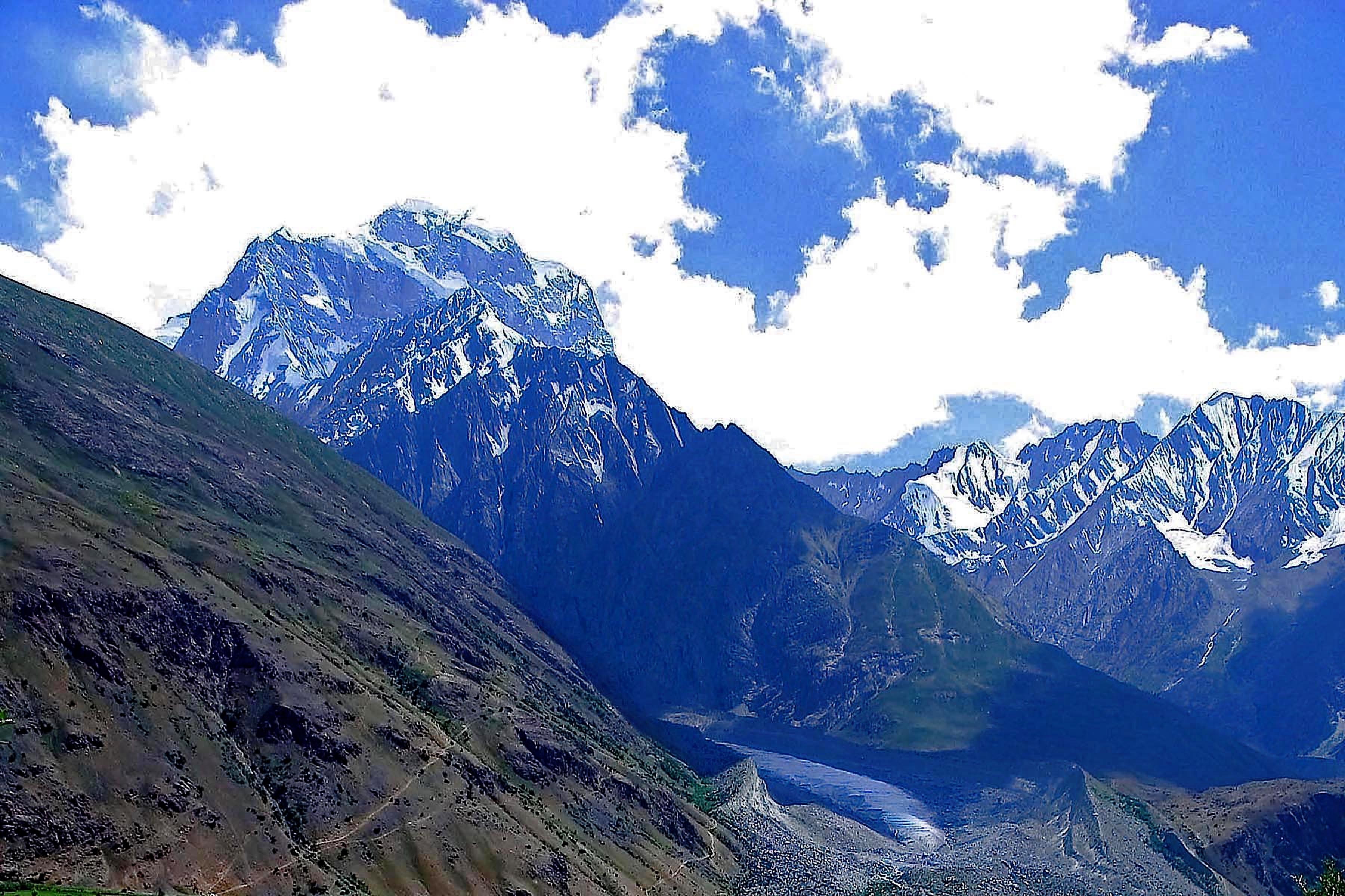 Along the Yarkhun river are several peaks particularly on its southern side of peaks ranging between 18 to 22 thousand peaks. Here shown some peaks of the Thui An group.